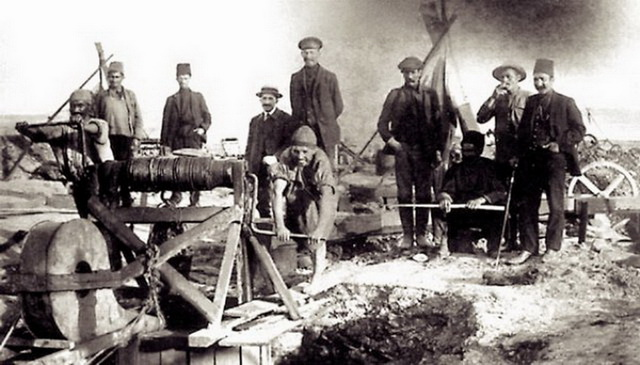 Workers digging an oil well by hand at Bibi-Eibat (Azerbaijan).